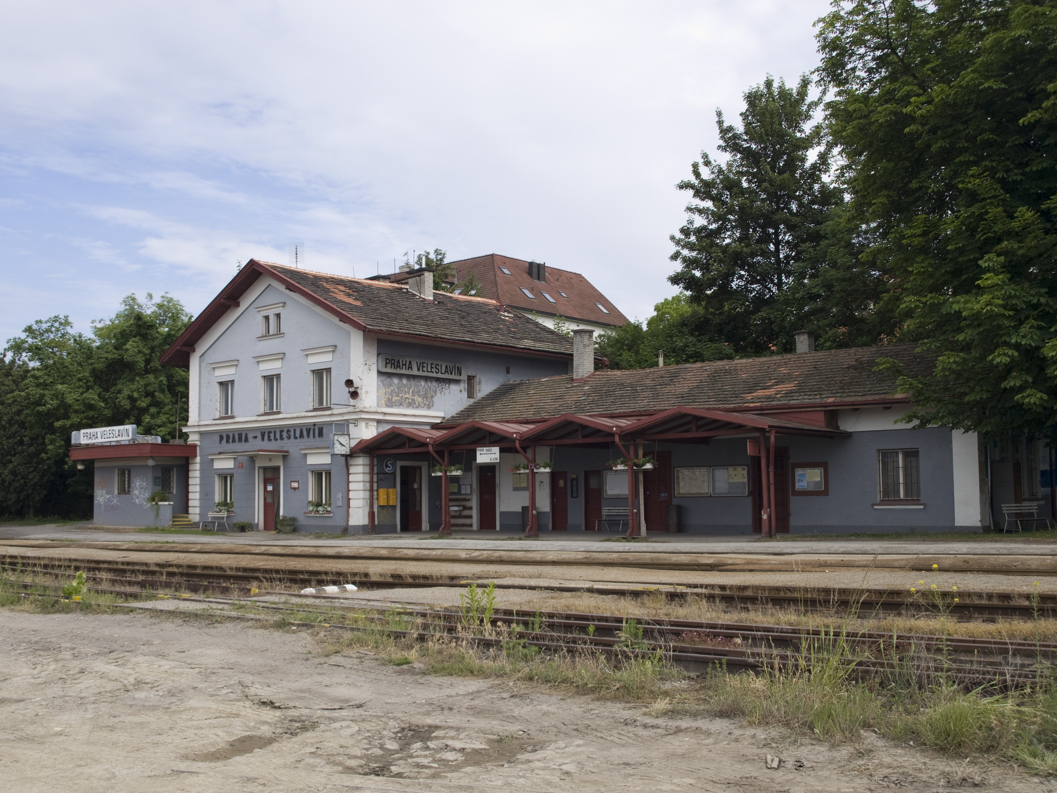 Praha-Veleslavín train station, Vltavská, Prague